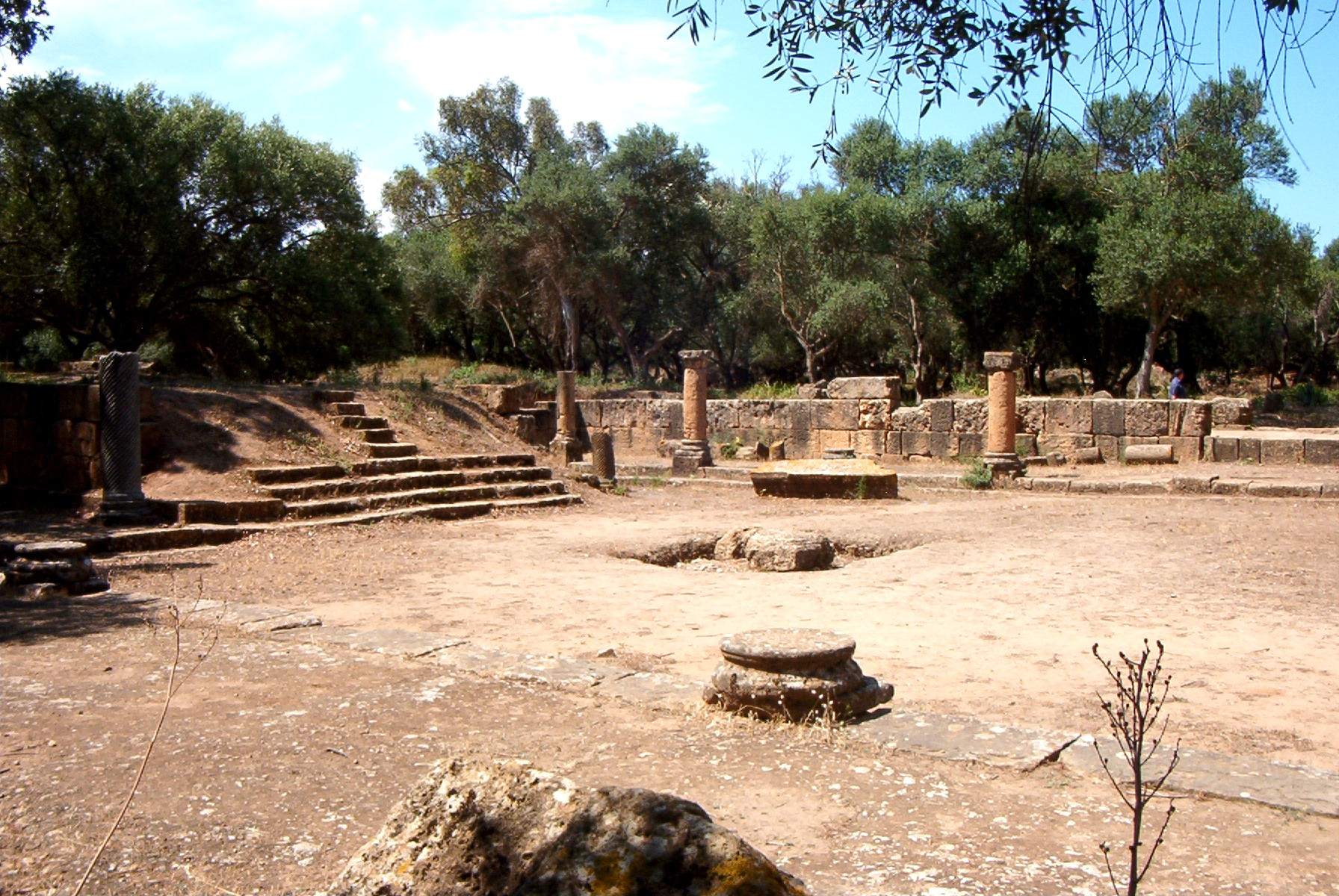 Ancient Roman archaeological site in Tipaza, Algeria.